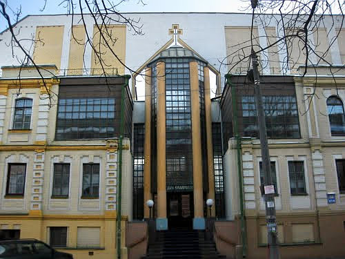 House of Gospel Baptist Church Kiev